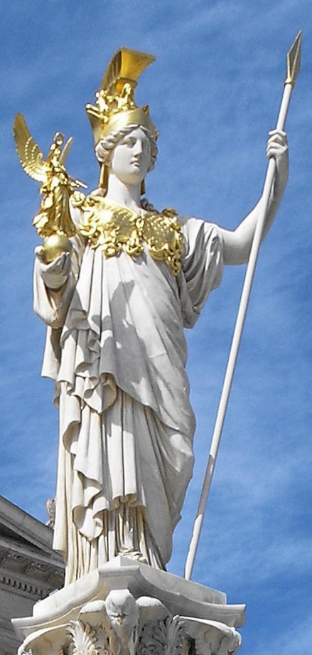 Austria, Vienna, Austrian Parliament Building